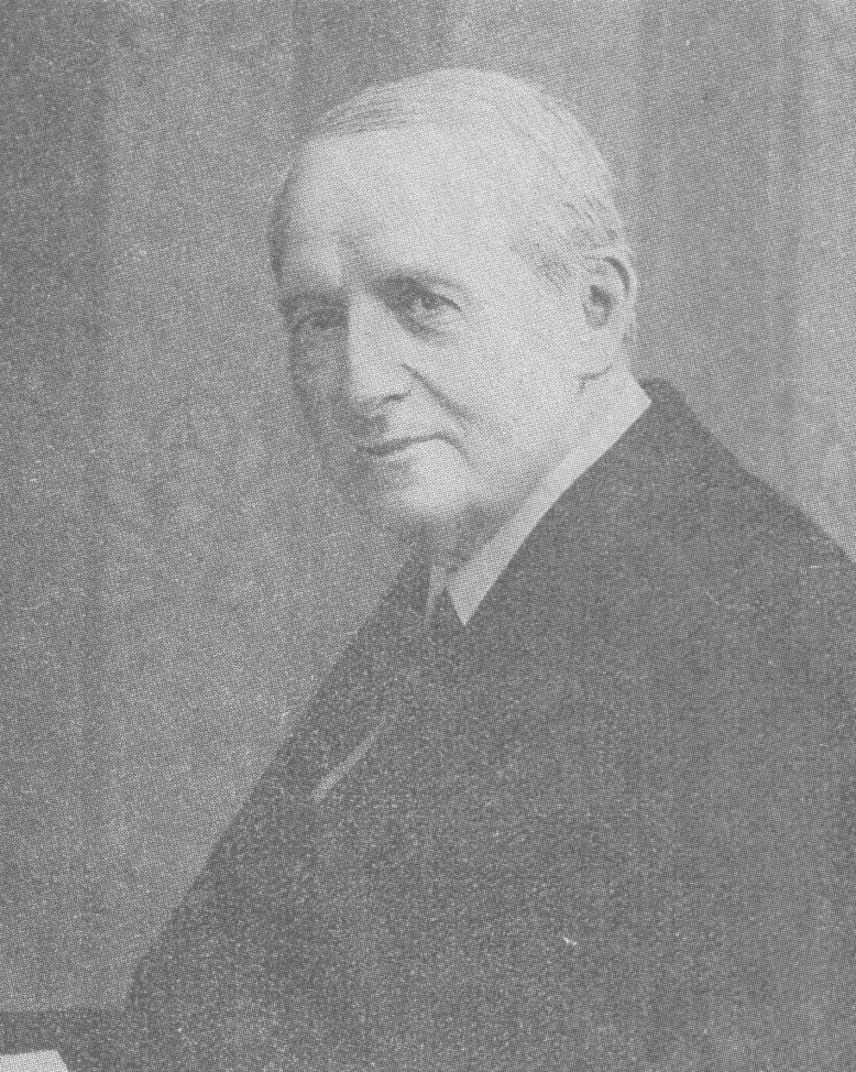 Christian Storz, mayor of Tuttlingen (1877-1903)